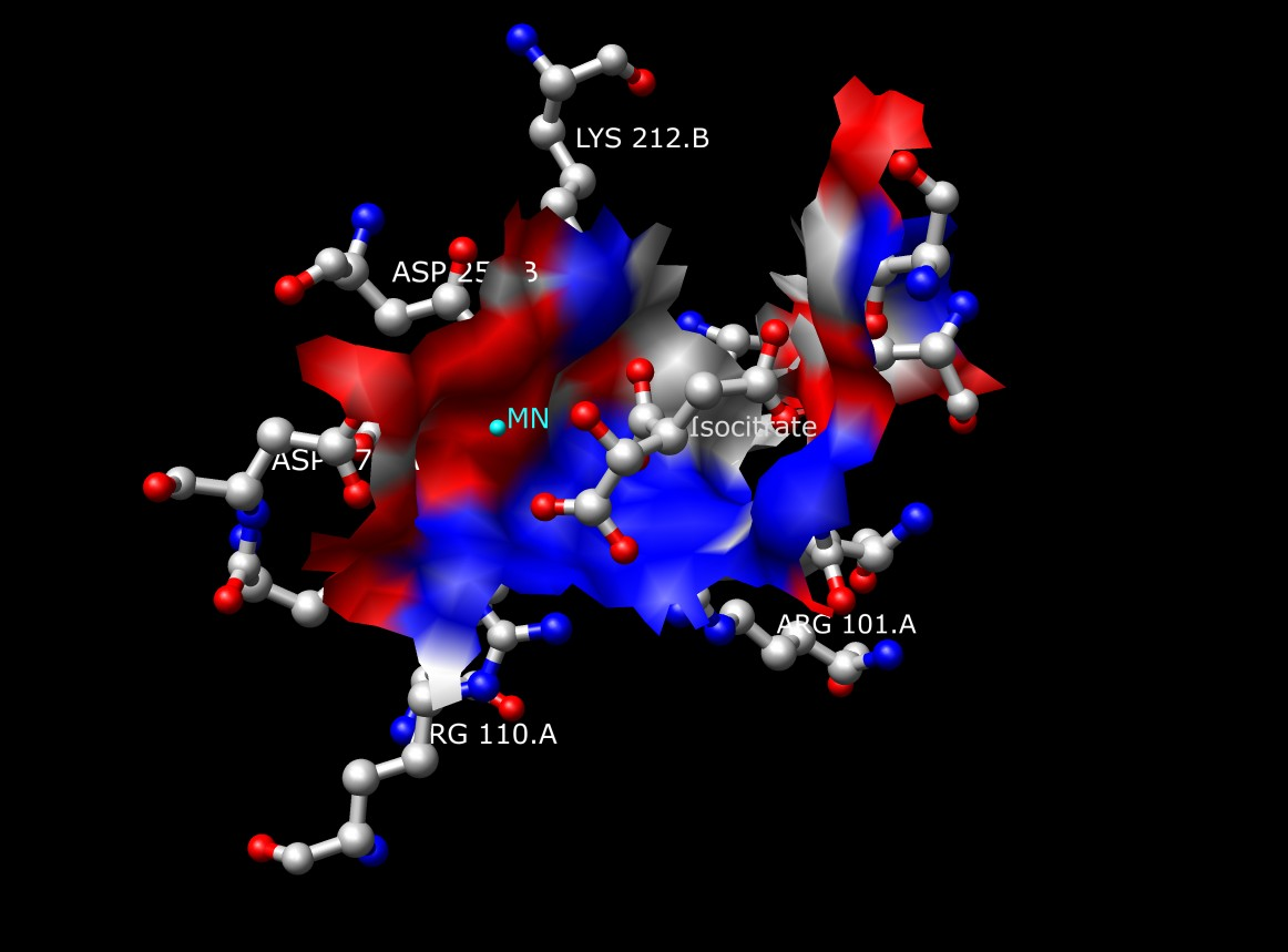 Porcine Mitochondrial NADP+-dependent Isocitrate Dehydrogenase Complexed with Mn2+ and Isocitrate.[9].